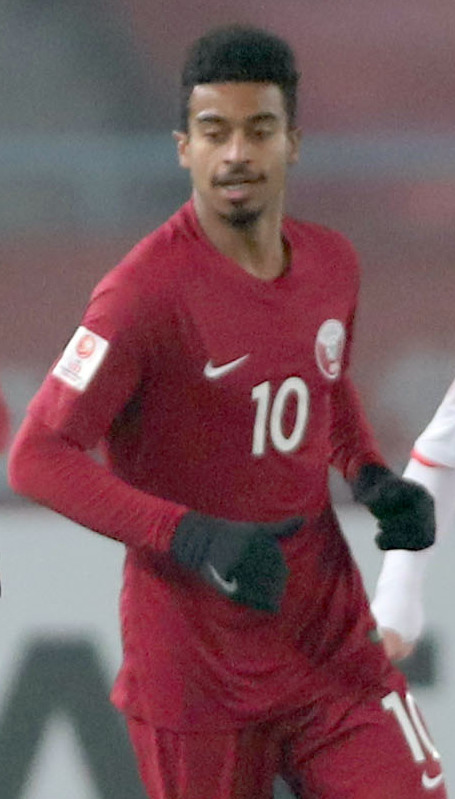 Akram Afif with Qatar U23 Team in China 2018